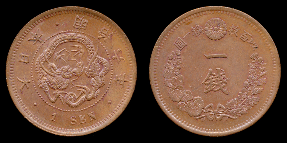 1sen-M6